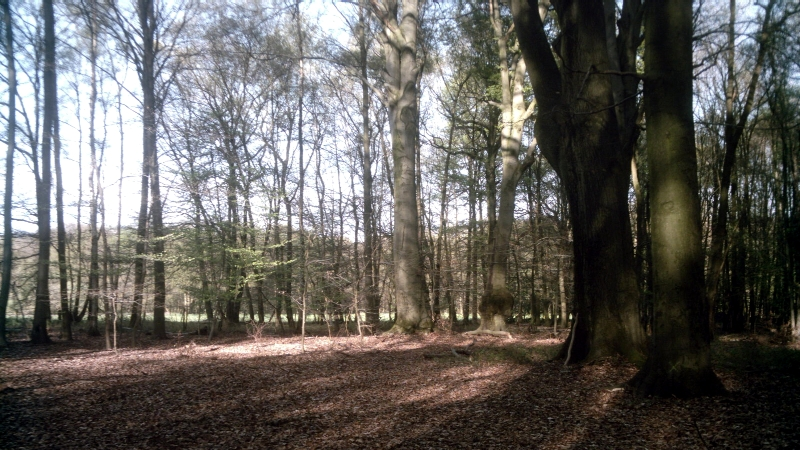 Small beech forest in Bockerter Heide ("Bockert Heath") nature reserve, Viersen, Germany